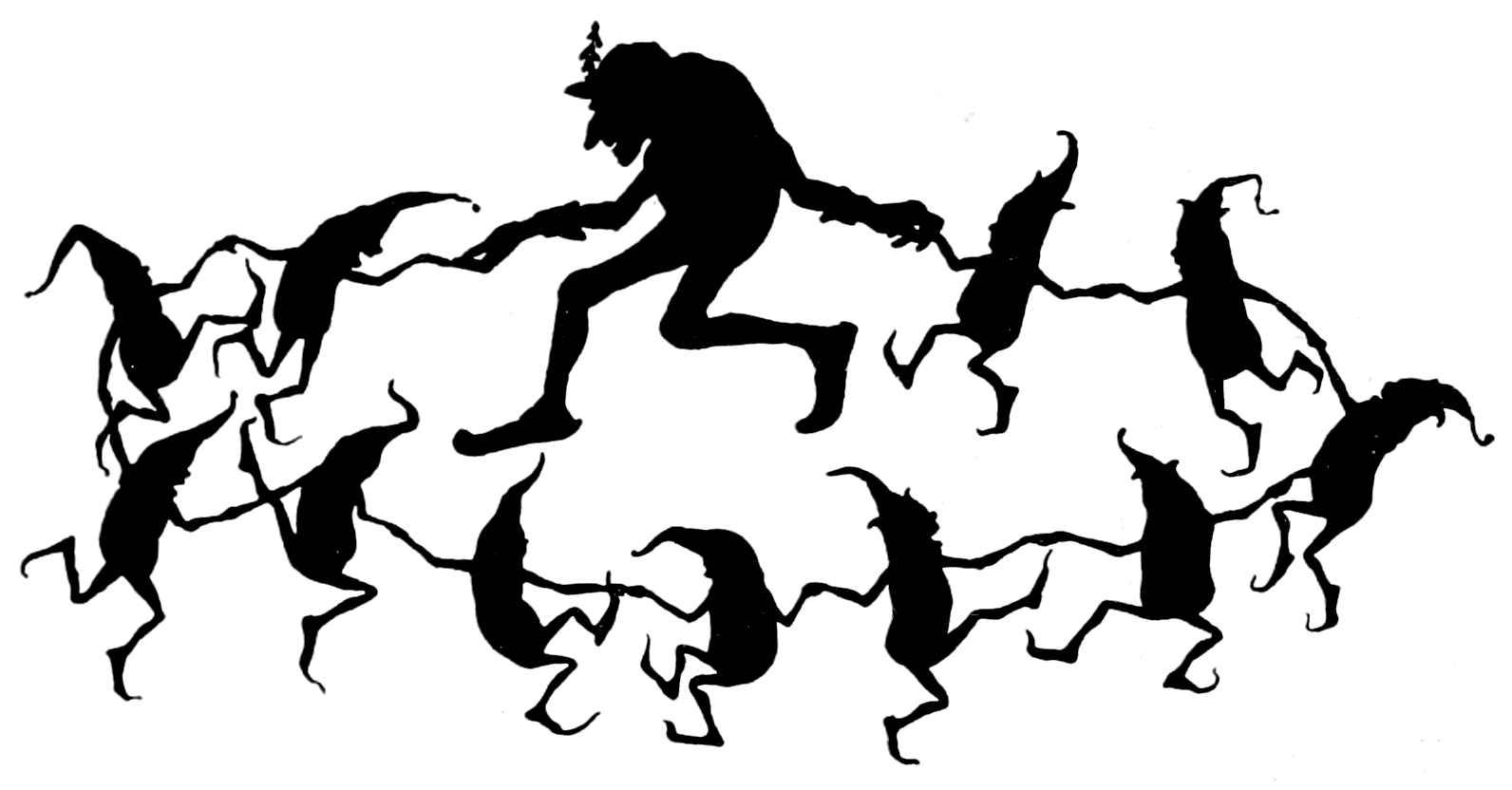 Scan of illustration on page of book in a series of fairy tales.